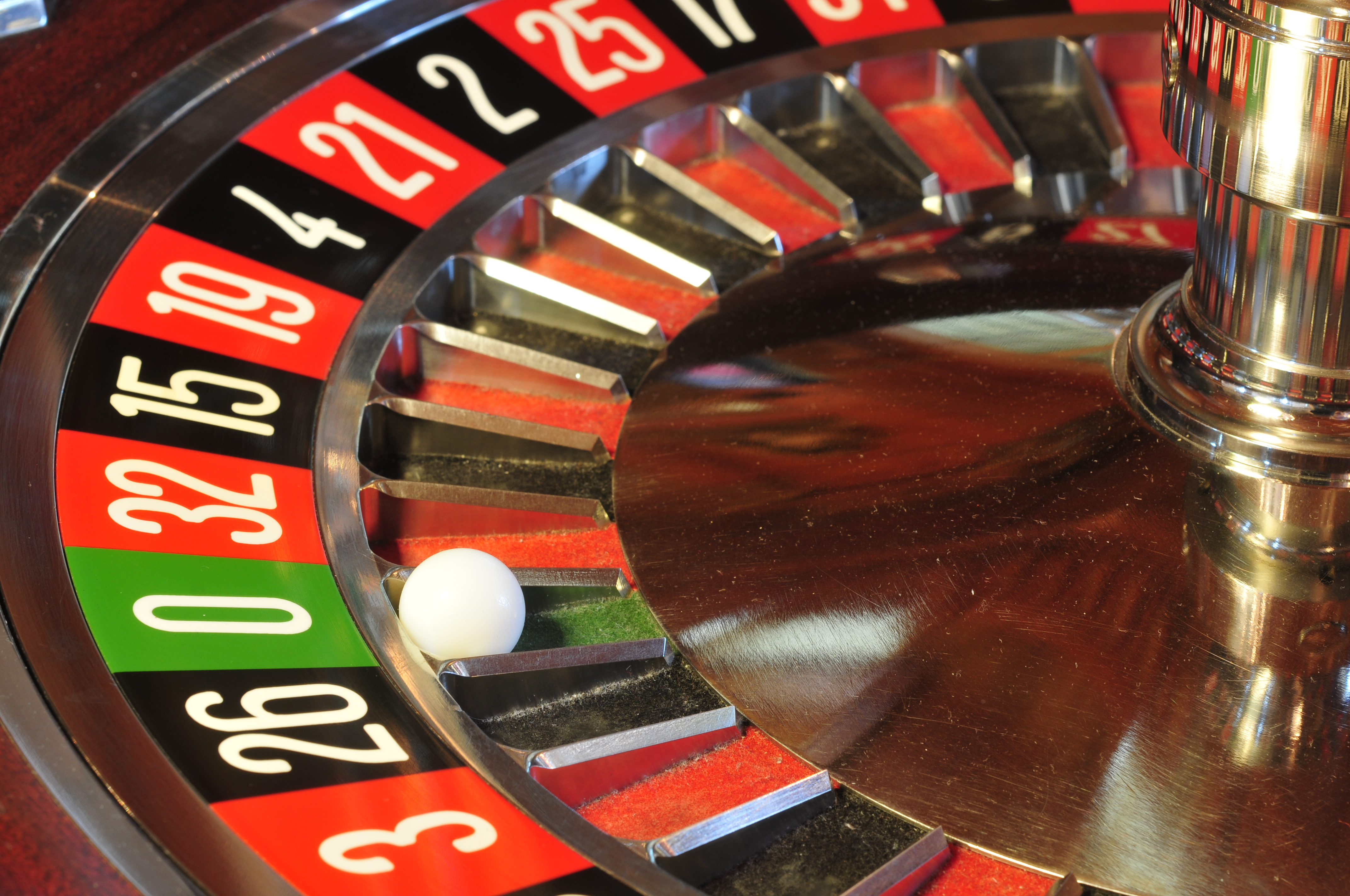 Wiesbaden, Germany, Spielbank Wikipedia im Landtag – Hessen 26.–28. Februar 2013 in Wiesbaden Fragen zur Nachnutzung Wenn Sie Fragen zur Nachnutzung dieses Bildes haben, können Sie sich jederzeit gern an wenden